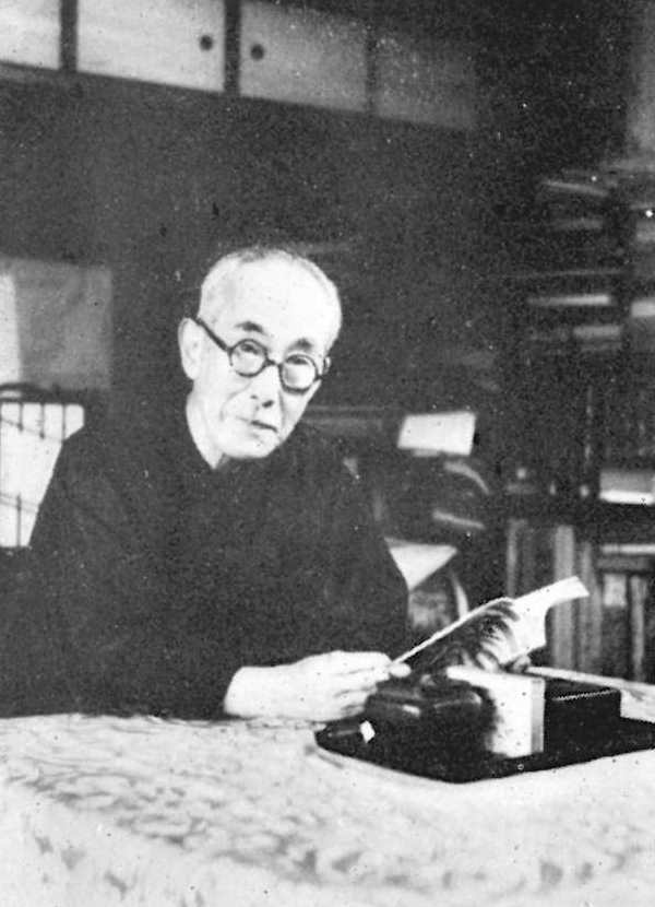 Toyotaka Komiya